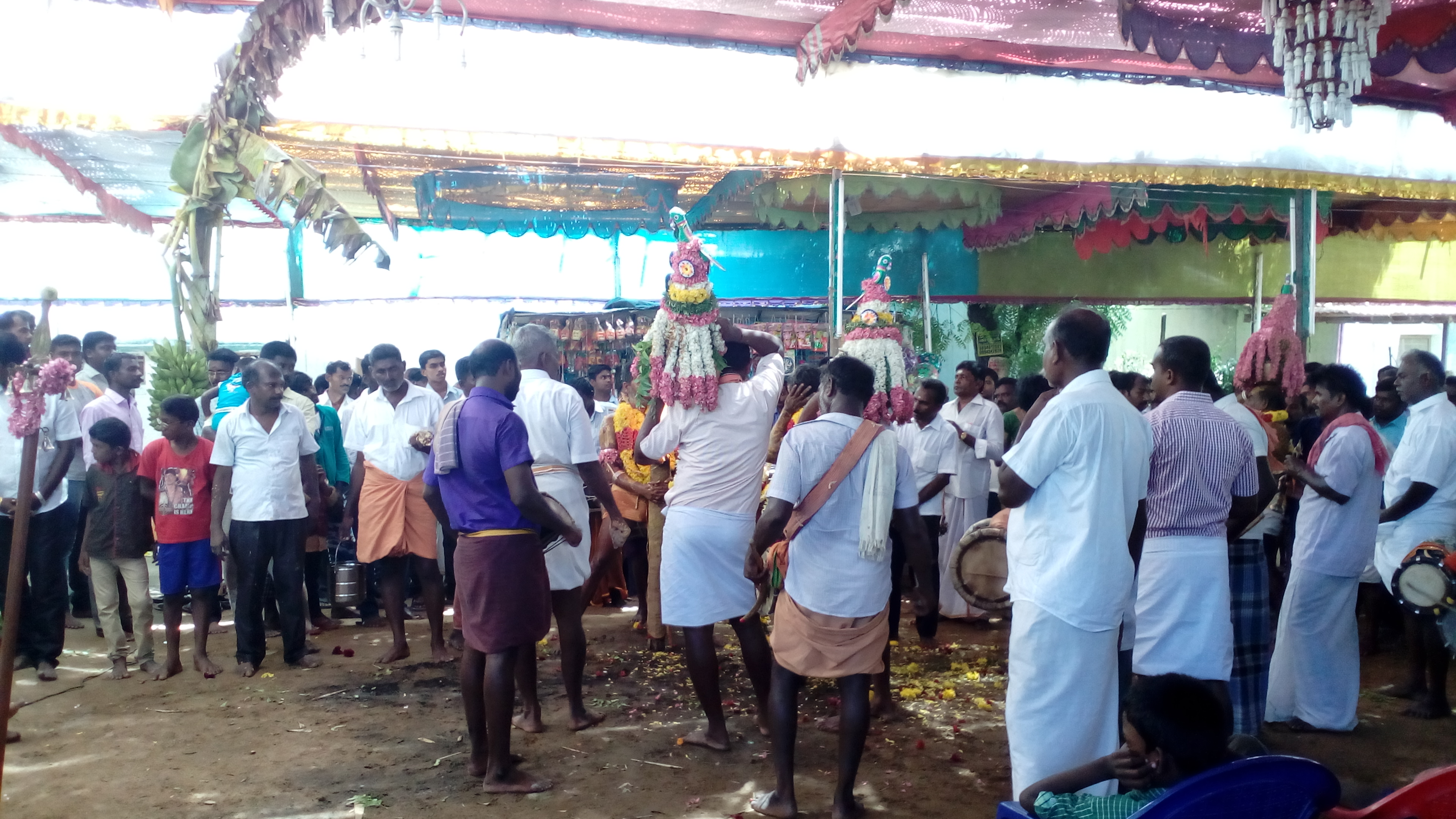 இரண்டு ஆண்டுக்கு ஒருமுறை இந்த கோவில் கொடைவிழா நடைபெறும்